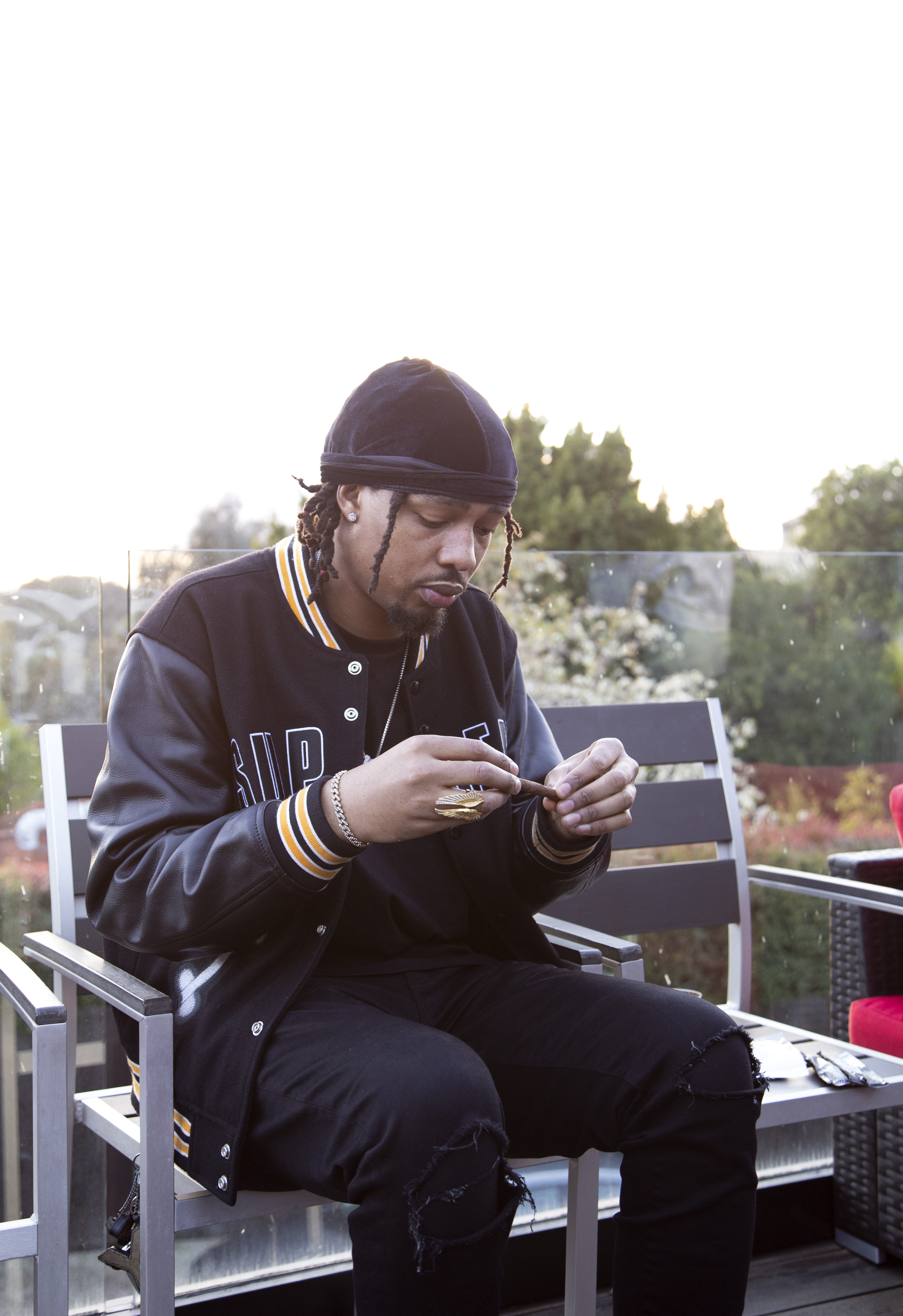 1$T Sitting down with a joint at a Pre-Grammy party. Photo taken by and owned by Matrix Artists, being released under Creative Commons Attribution 4.0 License